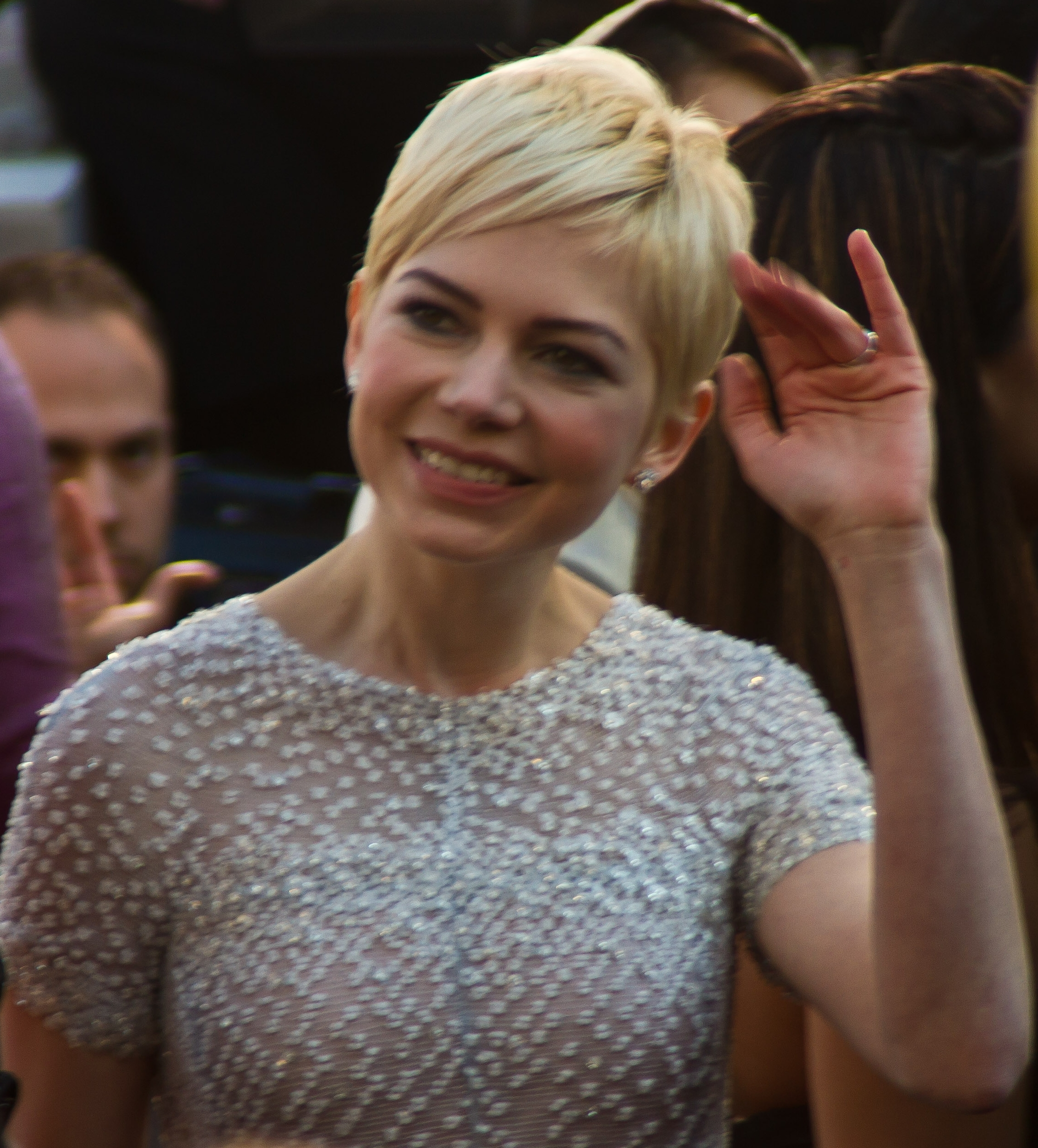 Actress Michelle Williams at the 83rd Academy Awards.